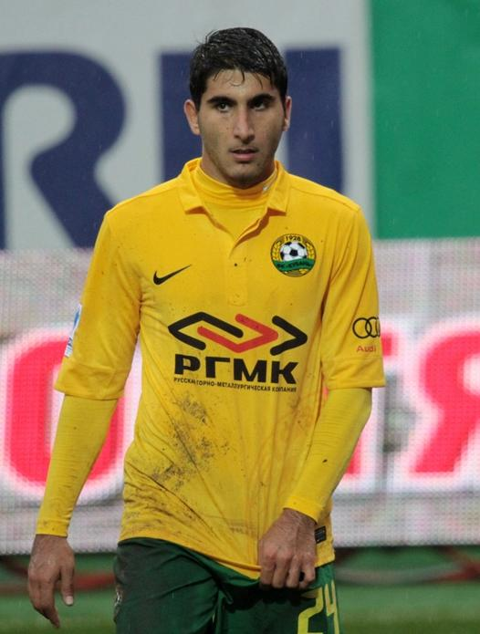 Aras Özbiliz playing for FC Kuban Krasnodar.